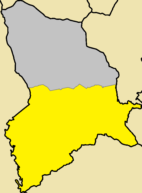 Agios Antonios in Spilia.